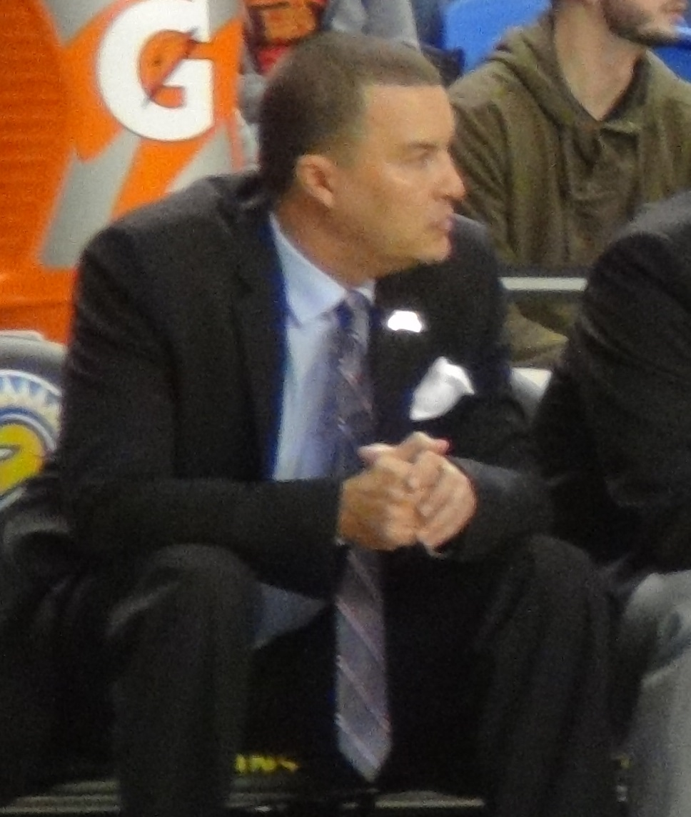 San Diego State University men's basketball assistant coach Justin Hutson during a game at San Jose State on February 7, 2017.